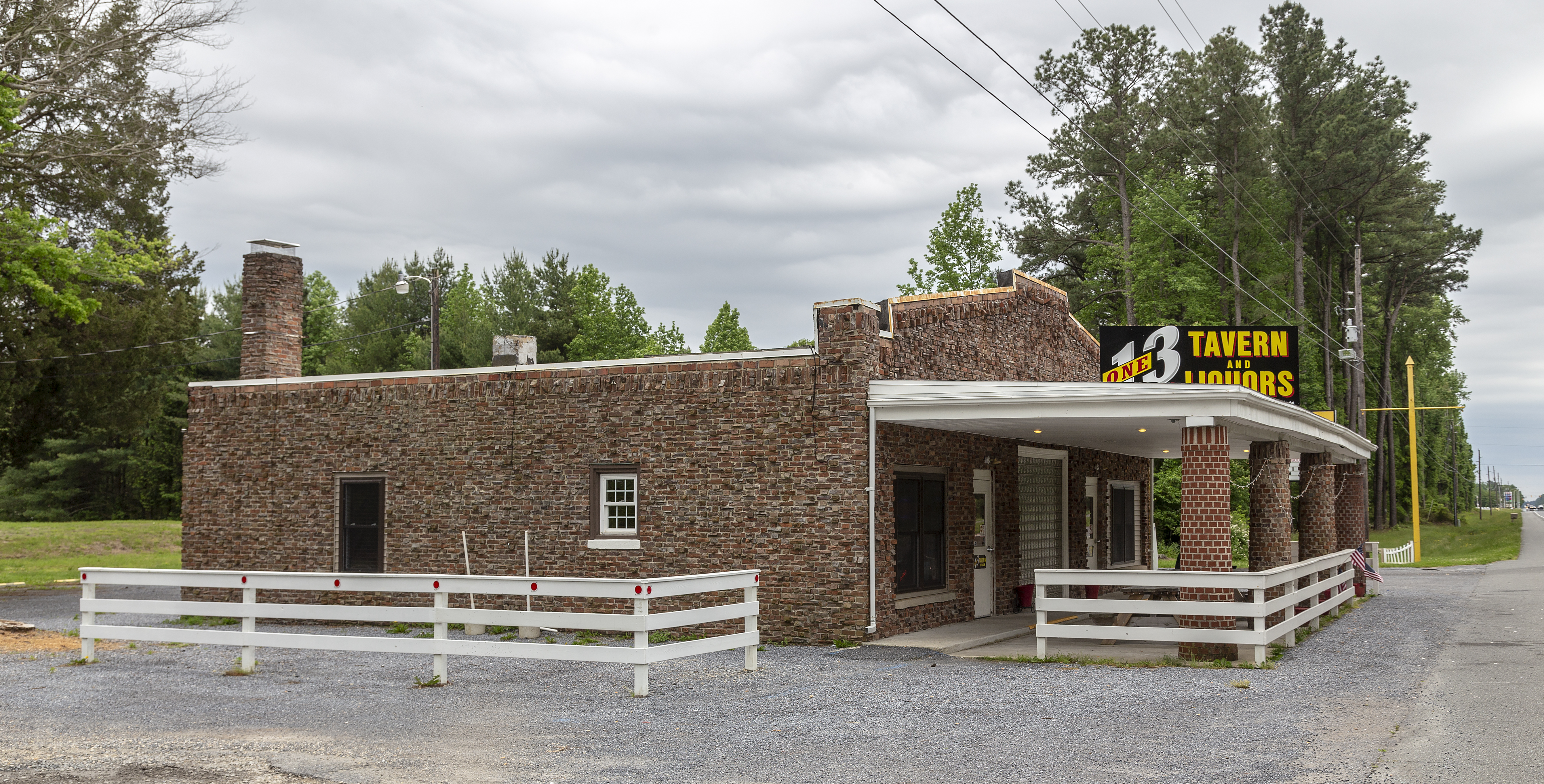 One 13 Tavern and Liquors, formerly Teddy's Tavern, on US Route 113 near Ellendale, Delaware, USA